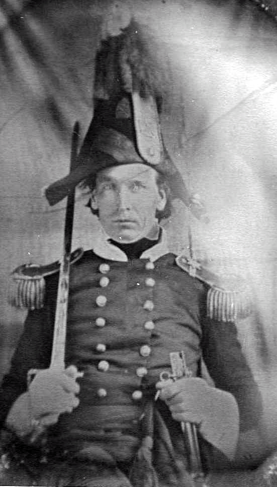 Ira Roe Foster in uniform